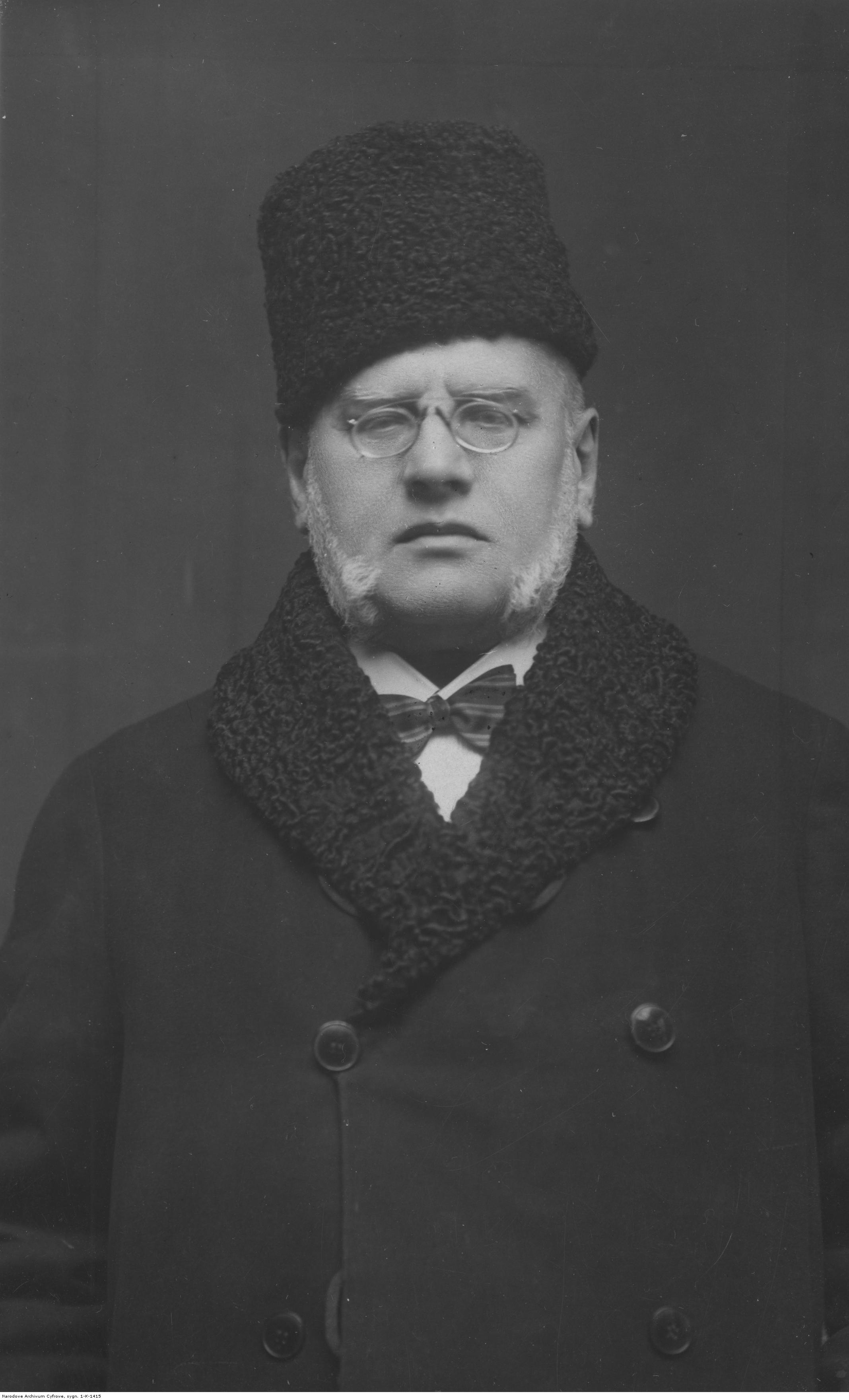 Klemens Bąkowski (1860-1938) - Polish lawyer, a photograph from Ilustrowany Kurier Codzienny.